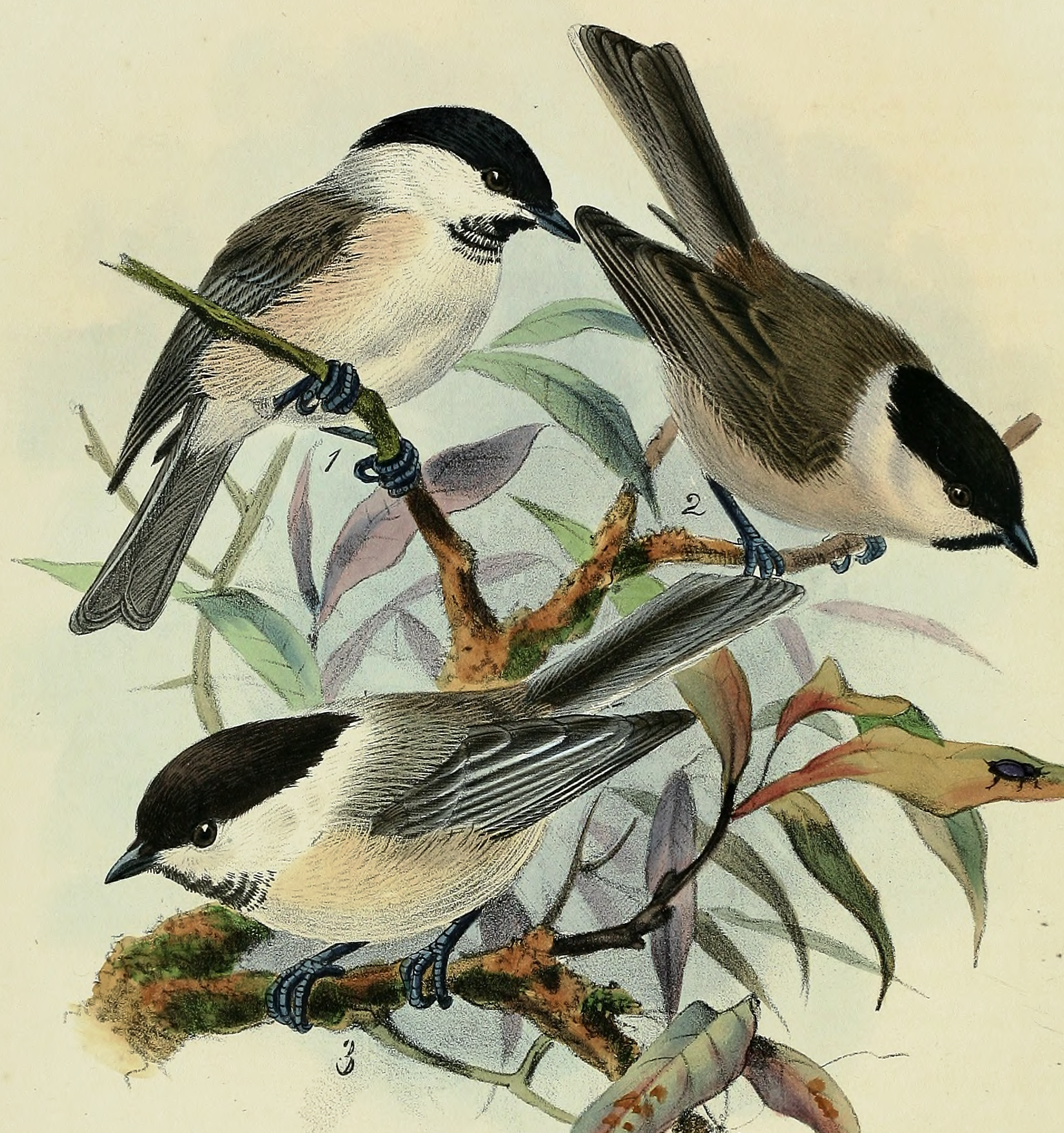 Poecile palustris (1, 2) and Poecile montanus (3)